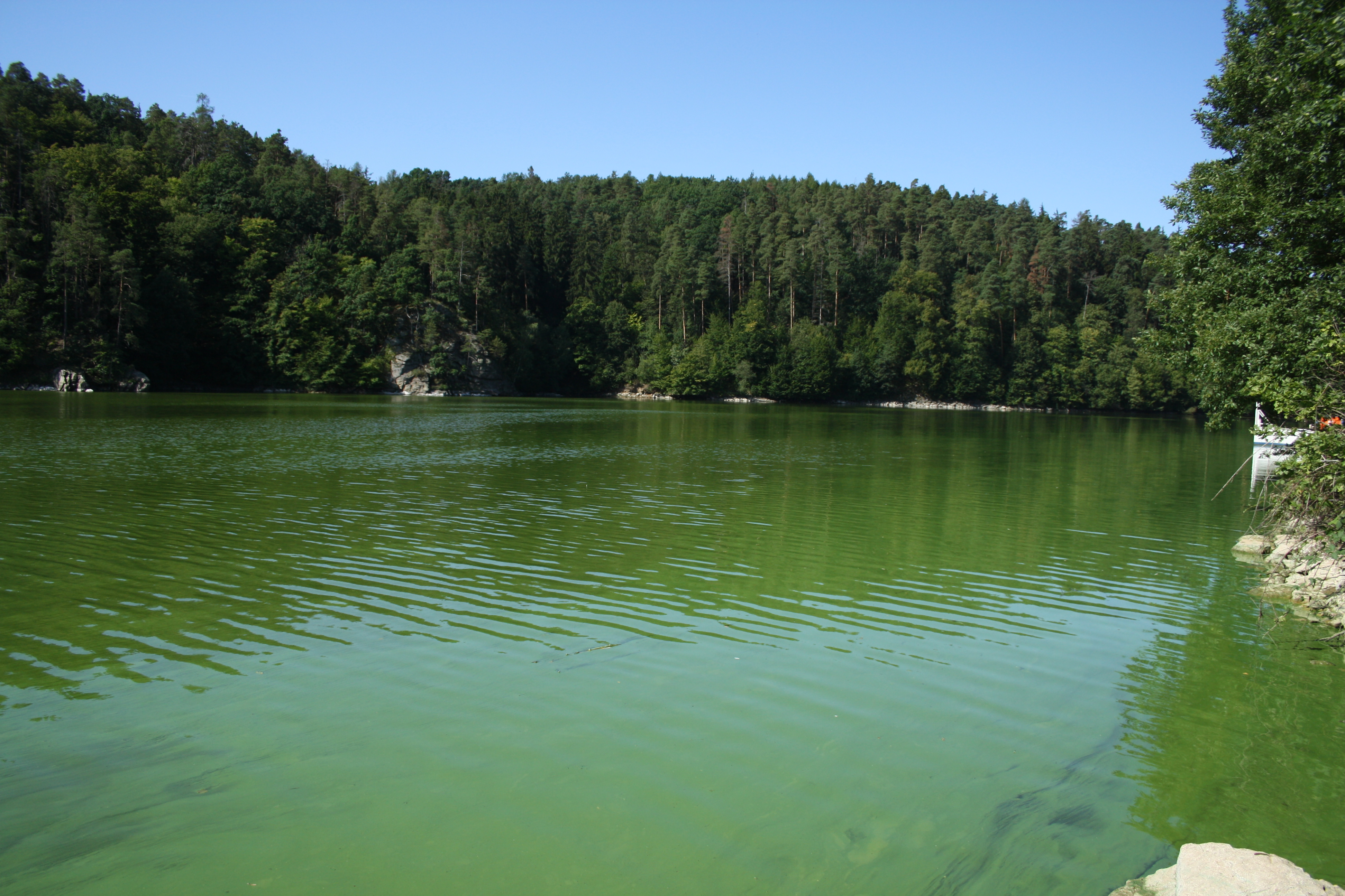 Dalešice reservoir from Třesov boat stop at 2009 summer.